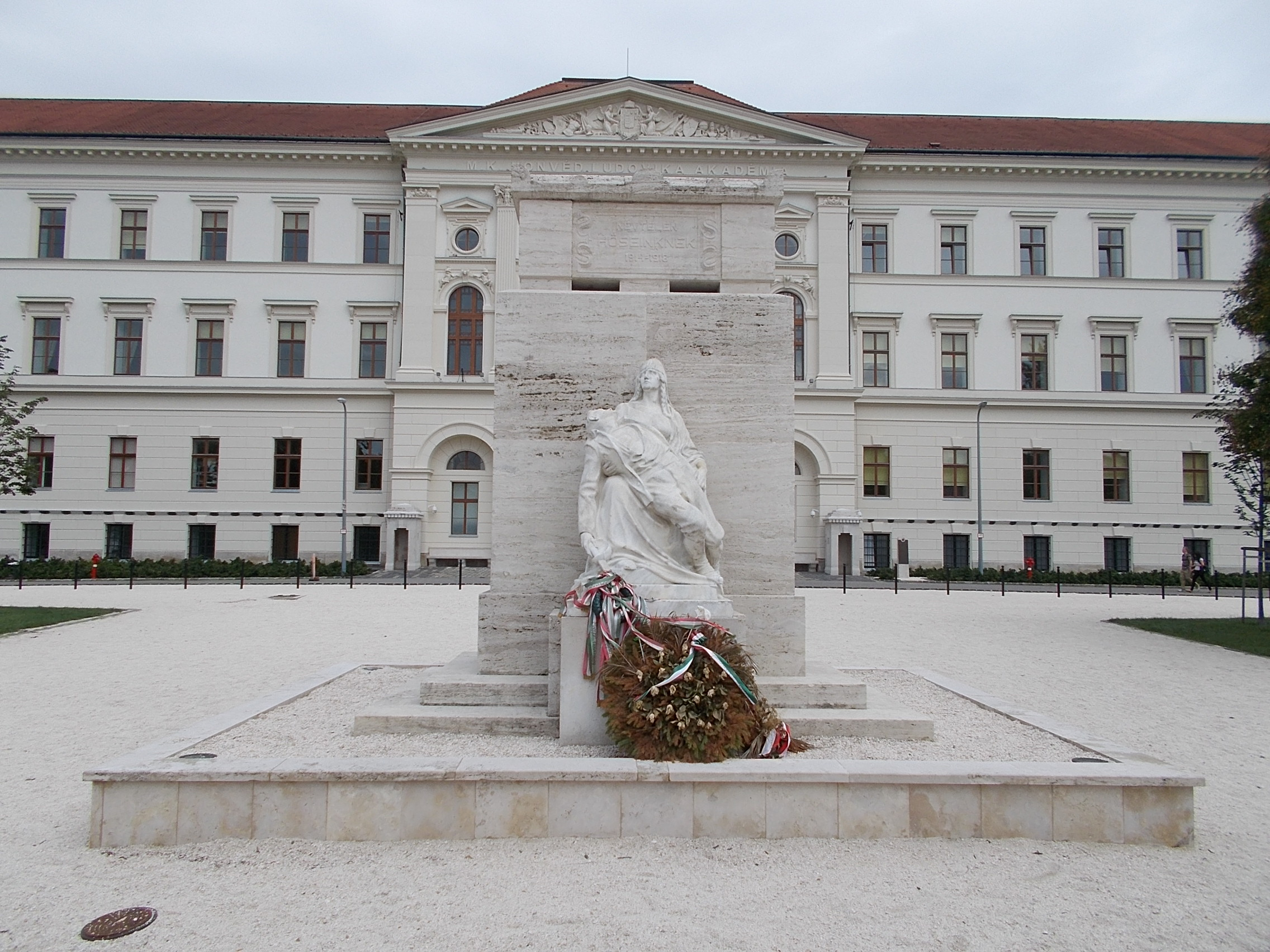 WWI Memorial at Ludovika and the Main building west facade of Ludovika complex. Now, Miklos Zrinyi National Defense University (MZNDU) - Ludovika square, Budapest District VIII